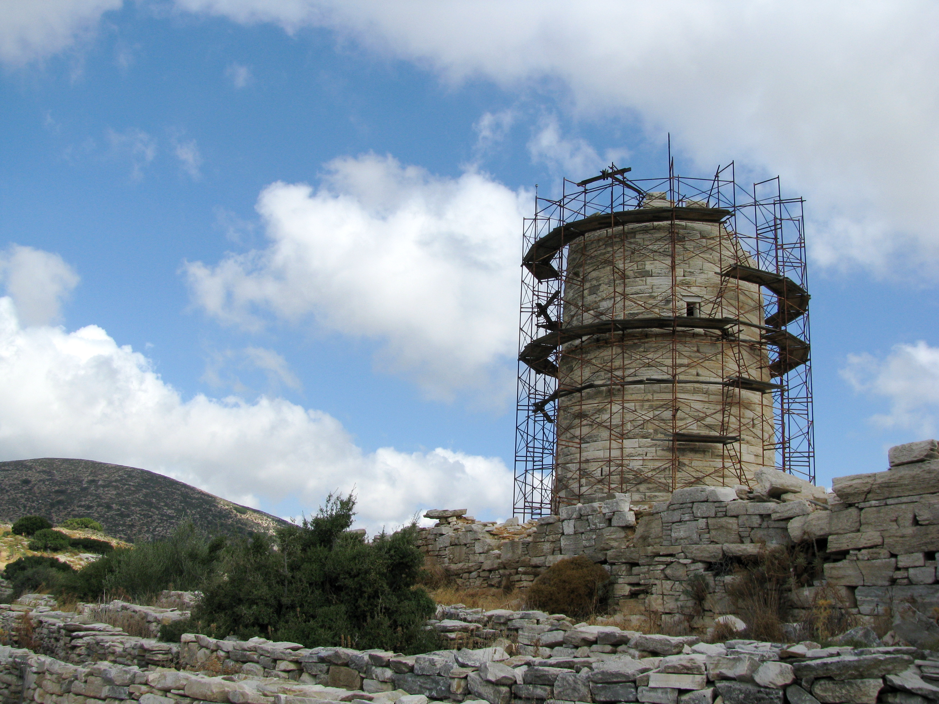 hellenistic tower on Naxos island